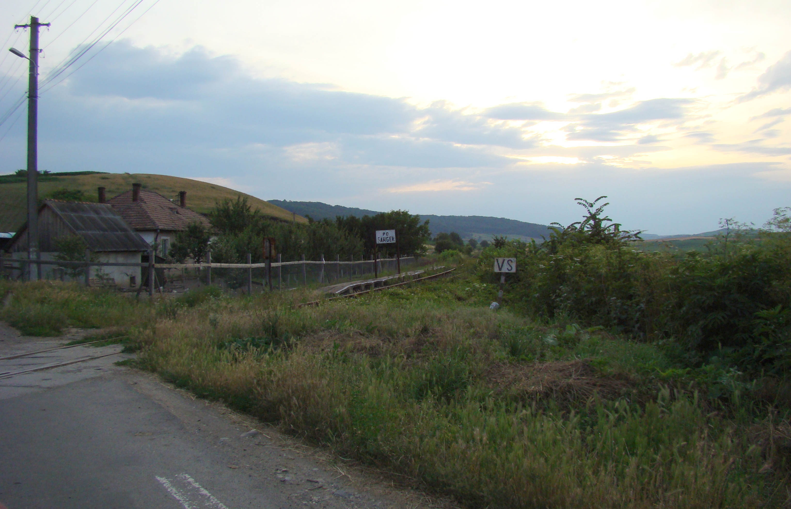 Sânger, Mureș county, Romania